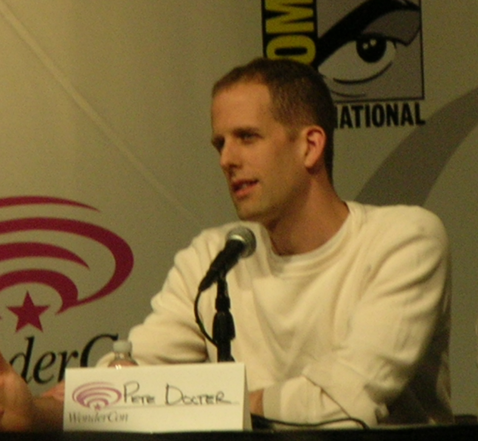 Director Pete Docter participating in a Star Trek panel at WonderCon 2009.